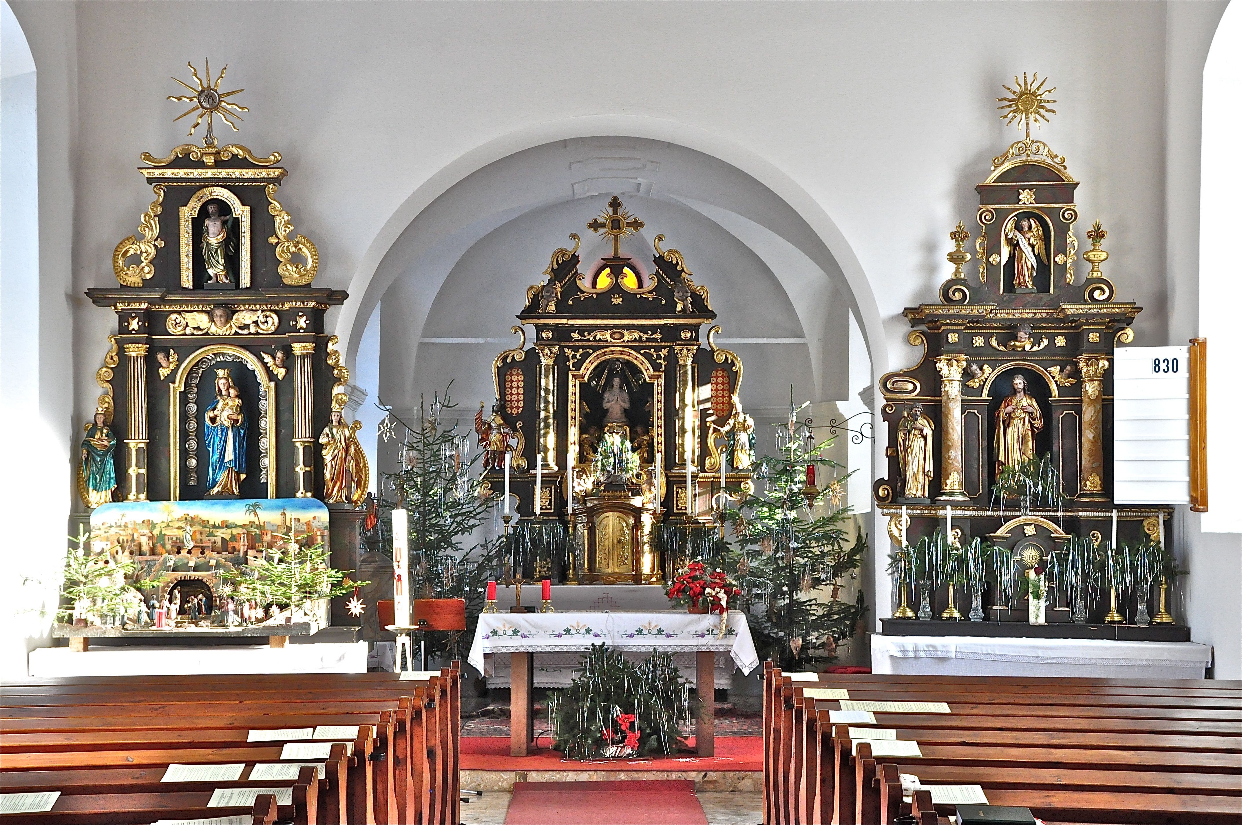 Baroque altars from 1670/1680 in the parish church Saint Vitus in Edling, market town Eberndorf, district Völkermarkt, Carinthia, Austria, EU